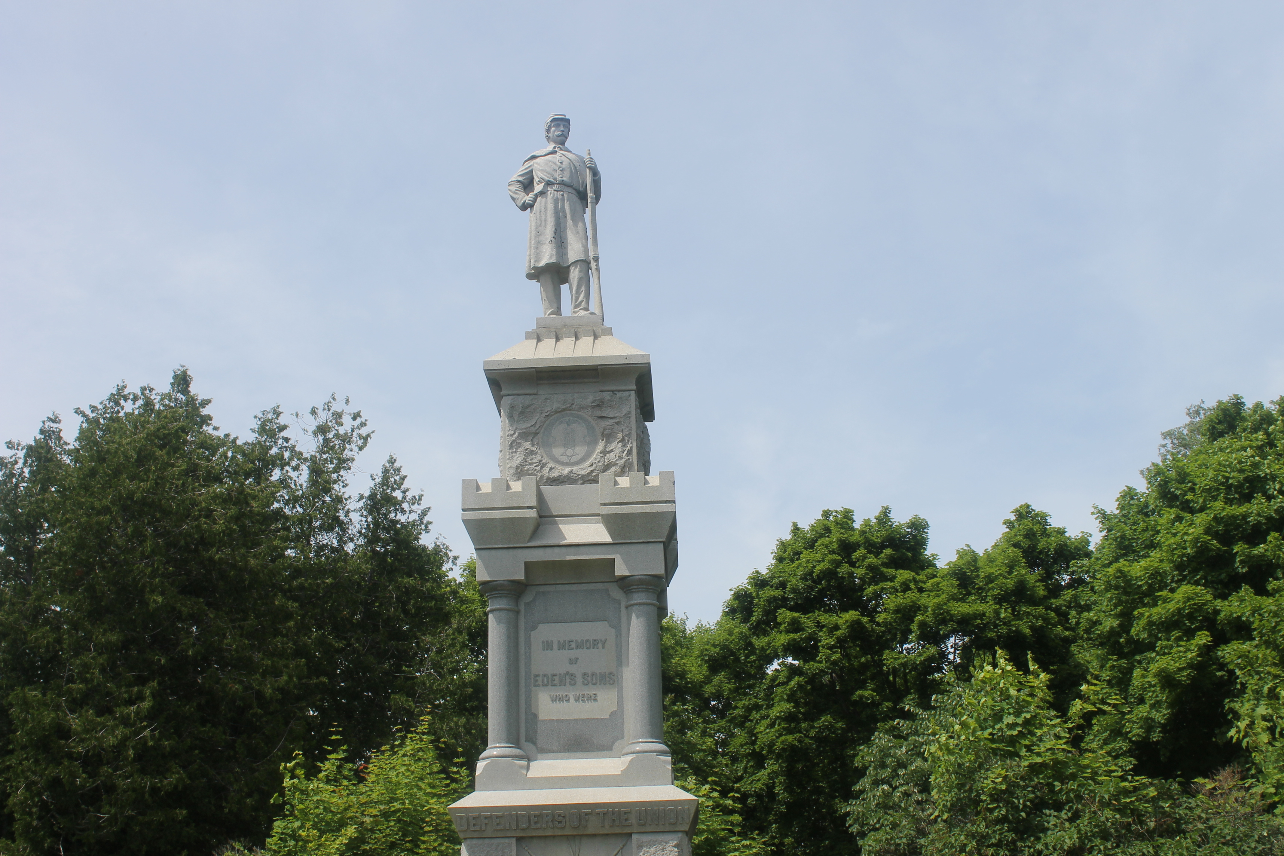 I took photo with Canon camera of Civil War Monument in Bar Harbor, ME. Monument says "Sons of Eden who fought for the Union". Eden is former name of Bar Harbor.